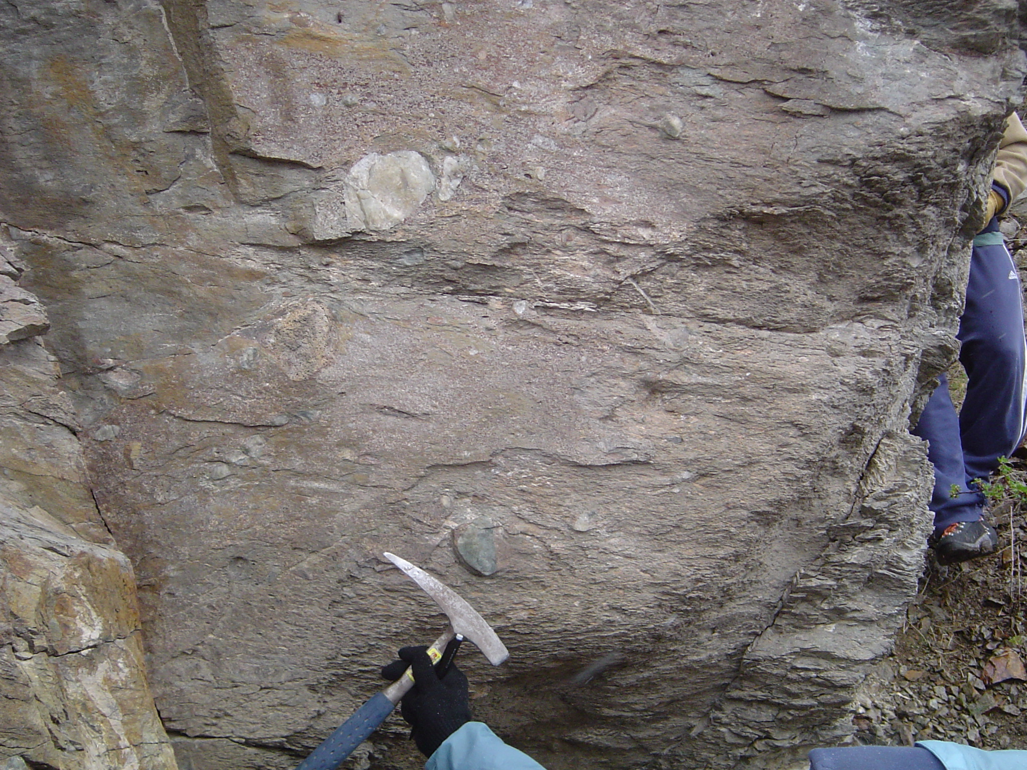 Diamictite from the Pocatello Formation near Pocatello, Idaho.